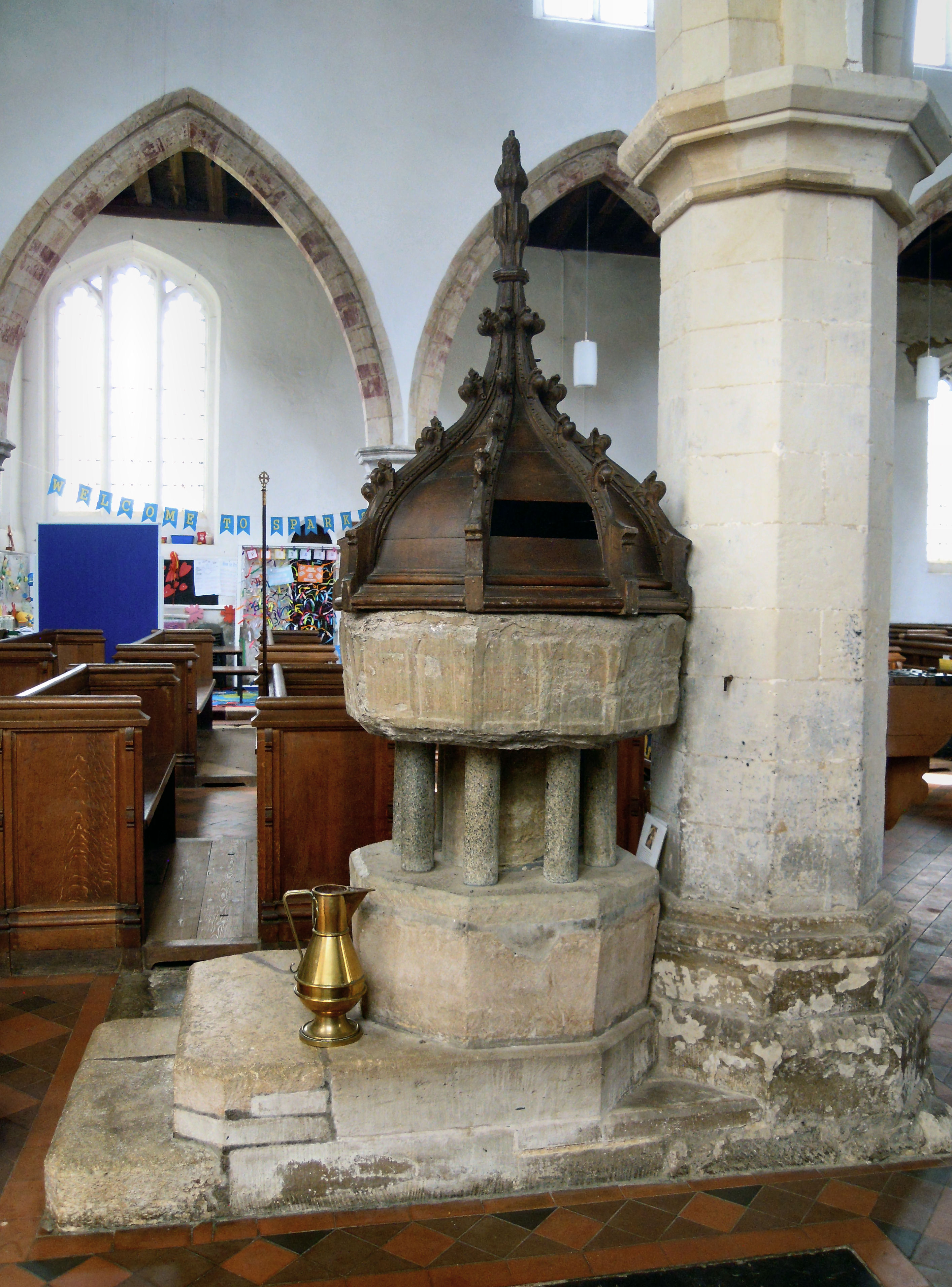 The 13th-century baptismal font in the Church of St Mary the Virgin in Gamlingay in Cambridgeshire